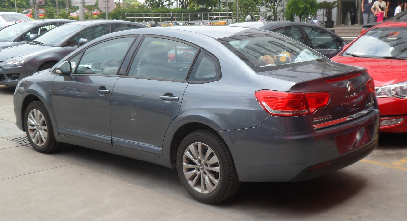 Citroën C-Quatre sedan facelift photographed in Shanghai, China.